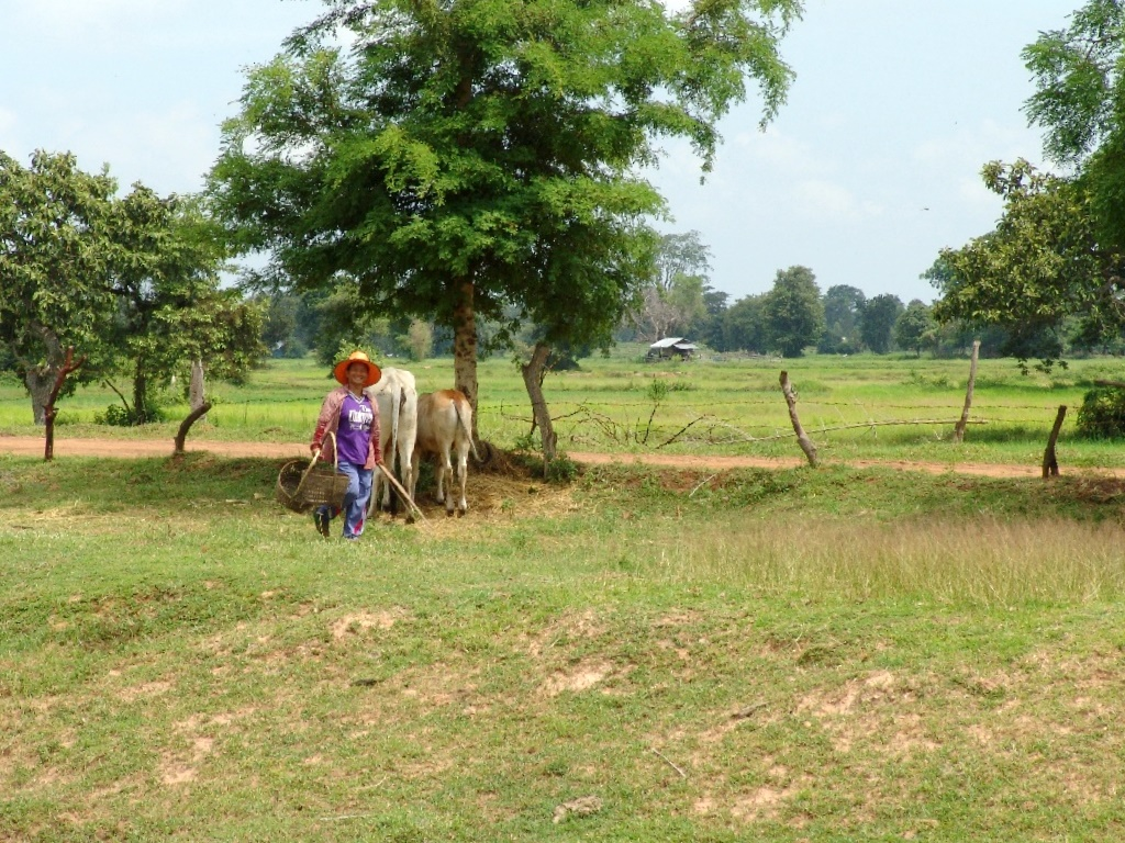 Thailand: Isaan Farmer and Ricefields.